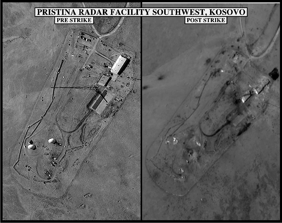 Pre-strike and post-strike assessment photographs of the Pristina Radar Facility Southwest, Kosovo, used by Joint Staff Vice Director for Strategic Plans and Policy Maj. Gen. Charles F. Wald, U.S. Air Force, during a press briefing on NATO Operation Allied Force in the Pentagon on April 20, 1999.